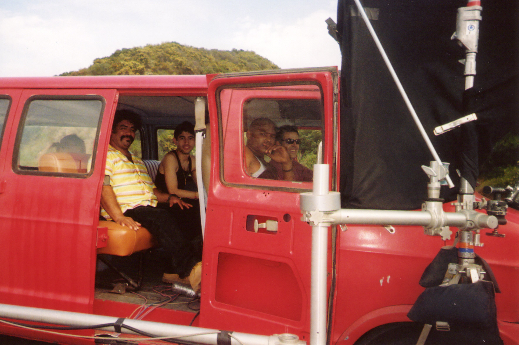 KC Gass photo